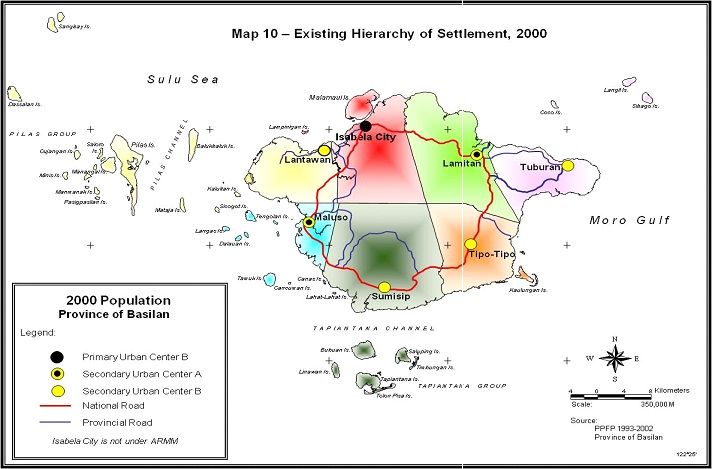 Basilan Political Map (as of 2000)